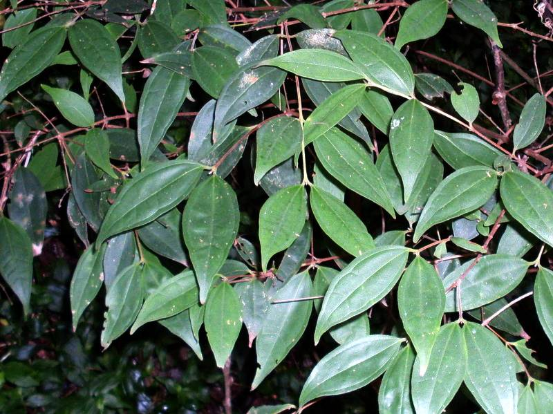 Rhodamnia rubescens at Elvina Bay, Australia. This population is now extinct (killed by Myrtle rust) December 2017